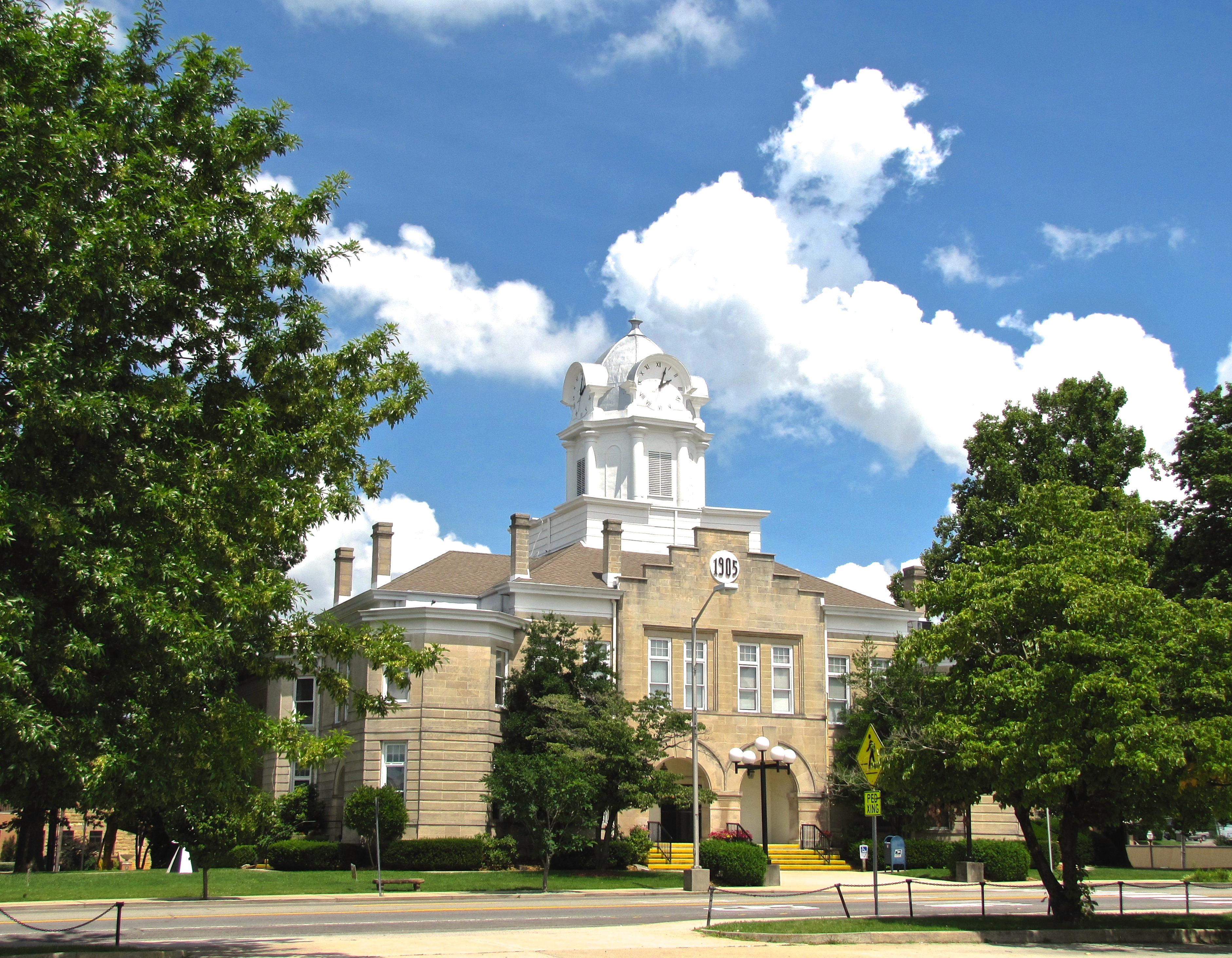 Cumberland County Courthouse in Crossville, Tennessee, United States.